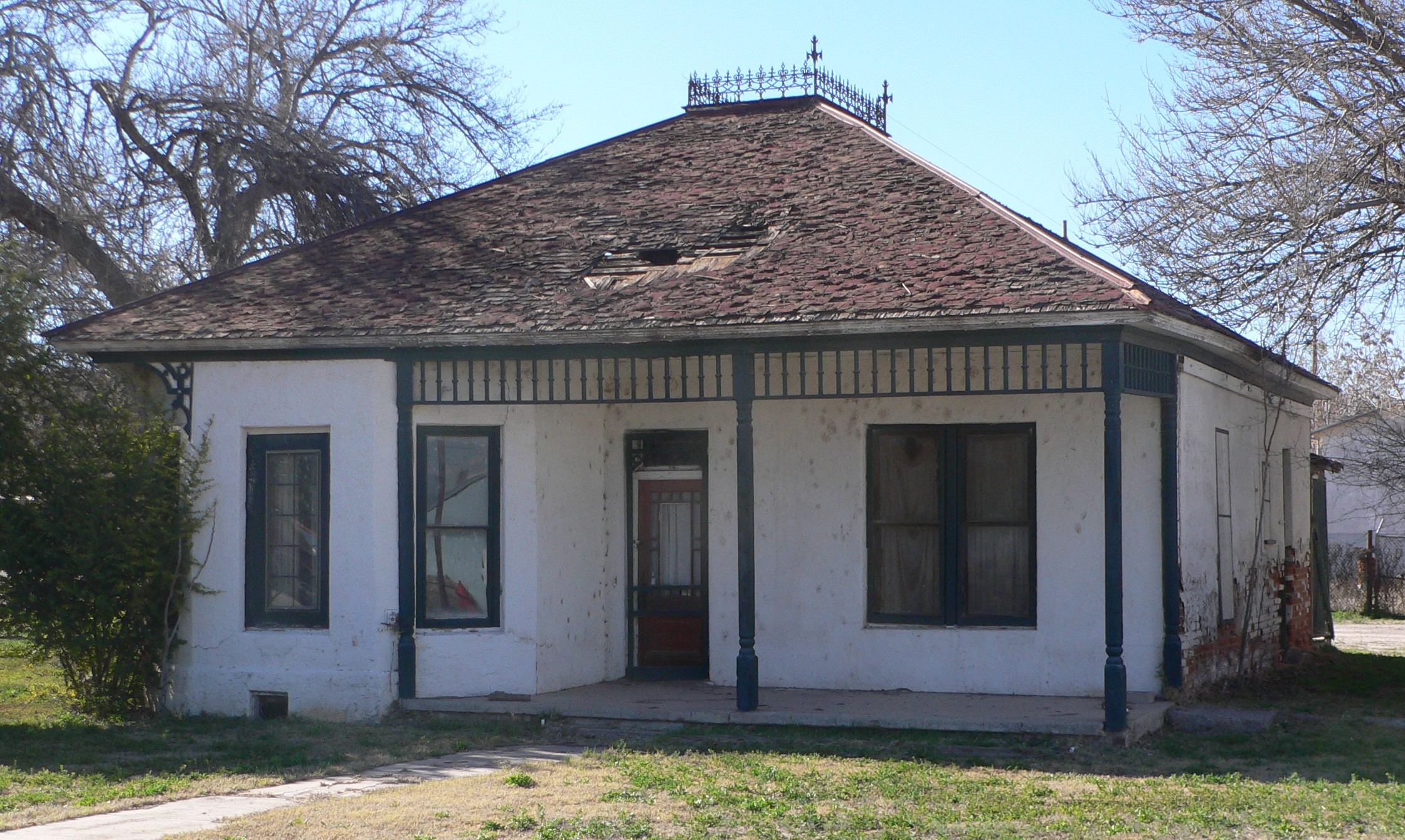 Benjamin F. Billingsley house, located at northwest corner of Main and Church Streets in Duncan, Arizona; seen from the southeast. The house faces southeast, toward Main.